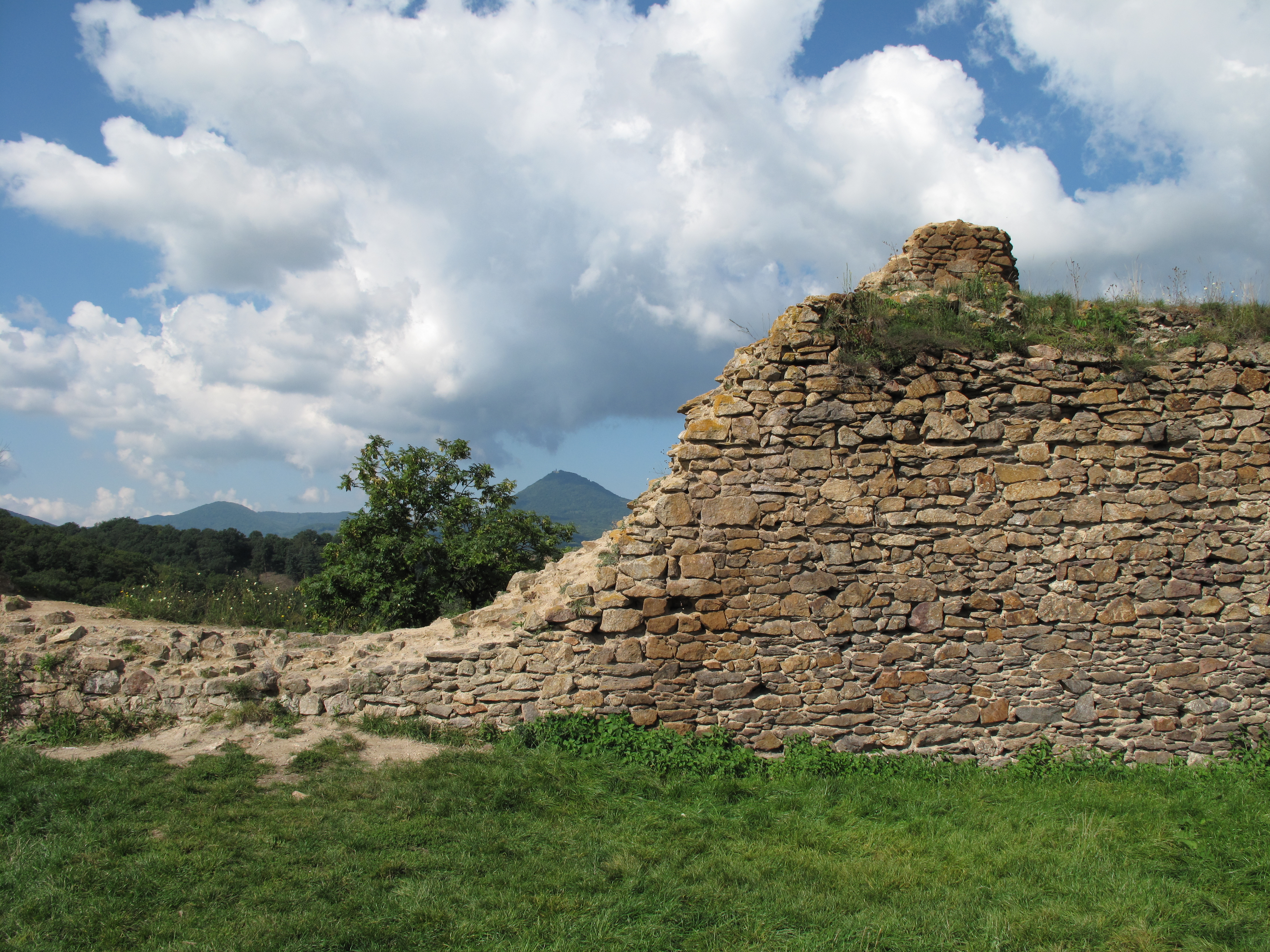 Ruins of former Oparno Castle, Litoměřice District, Czech Republic. Milešovka on the horizon.